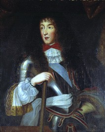 Philippe, duke of Orléans and brother of Louis XIV, wearing an armor with fleur-de-lys